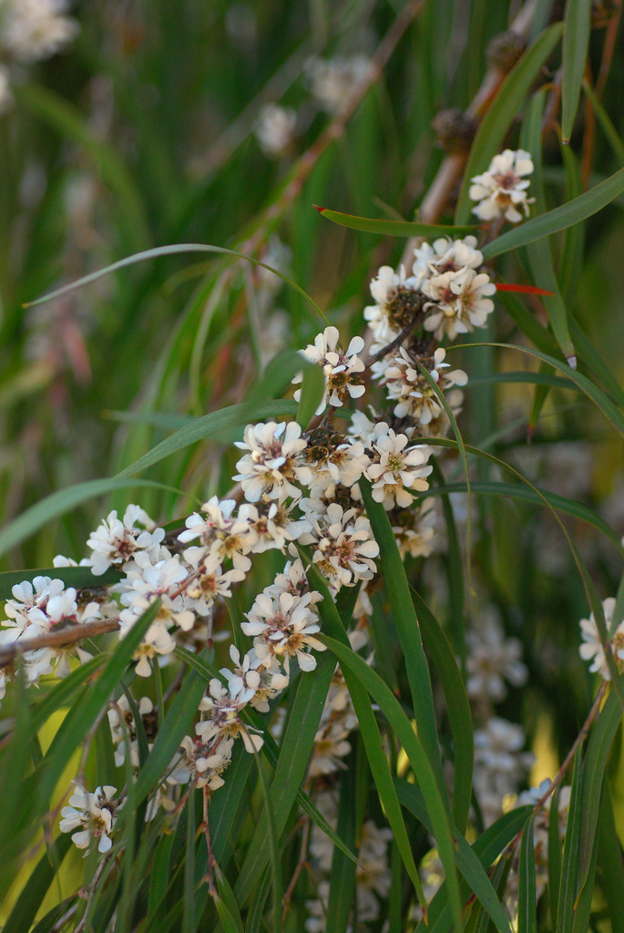 Agonis flexuosa photographed at the San Francisco Botanical Garden at Strybing Arboretum